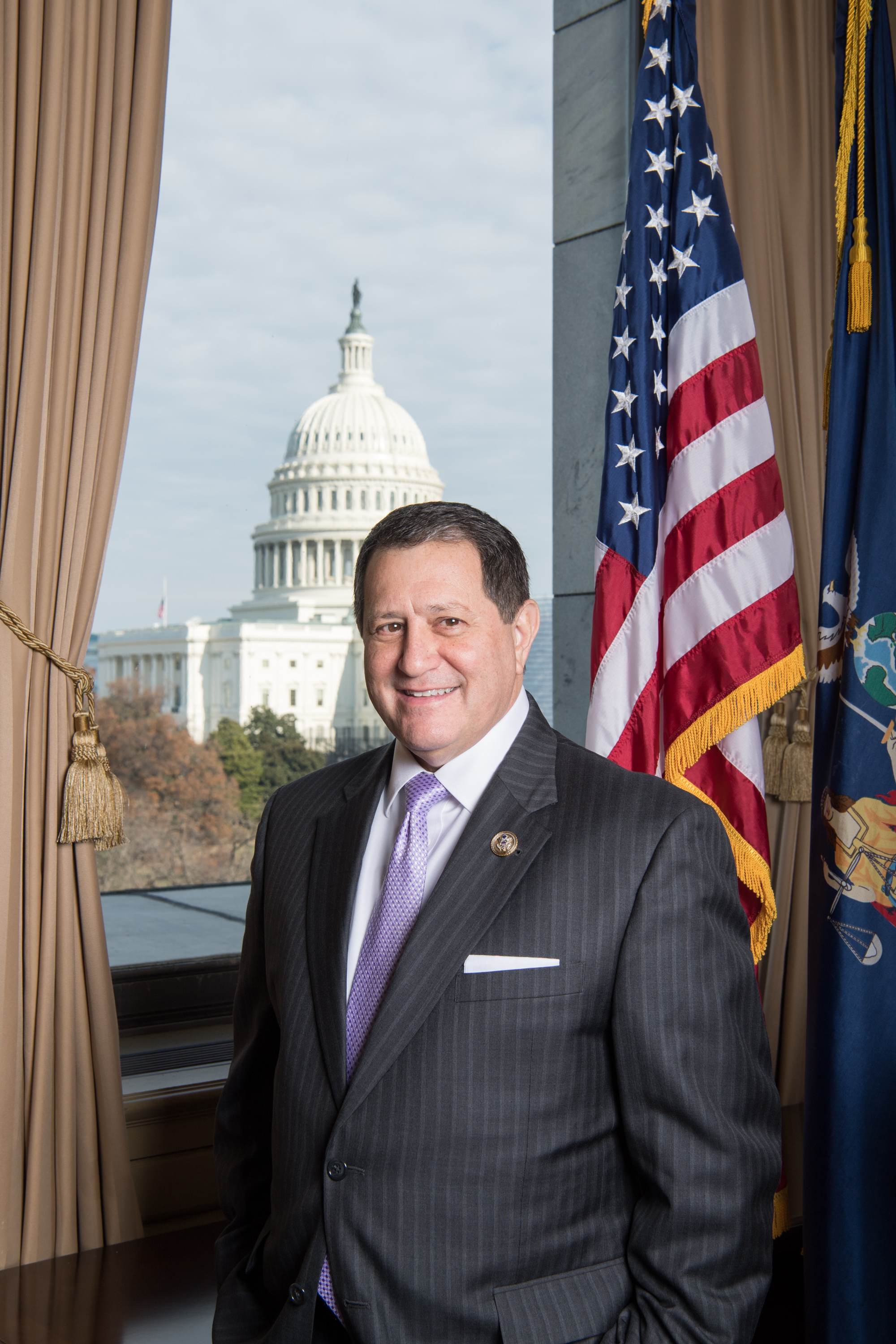 Official congressional photograph of Joe Morelle.